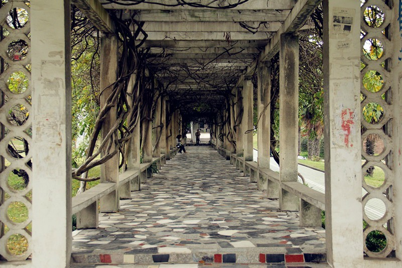 A place in CAU